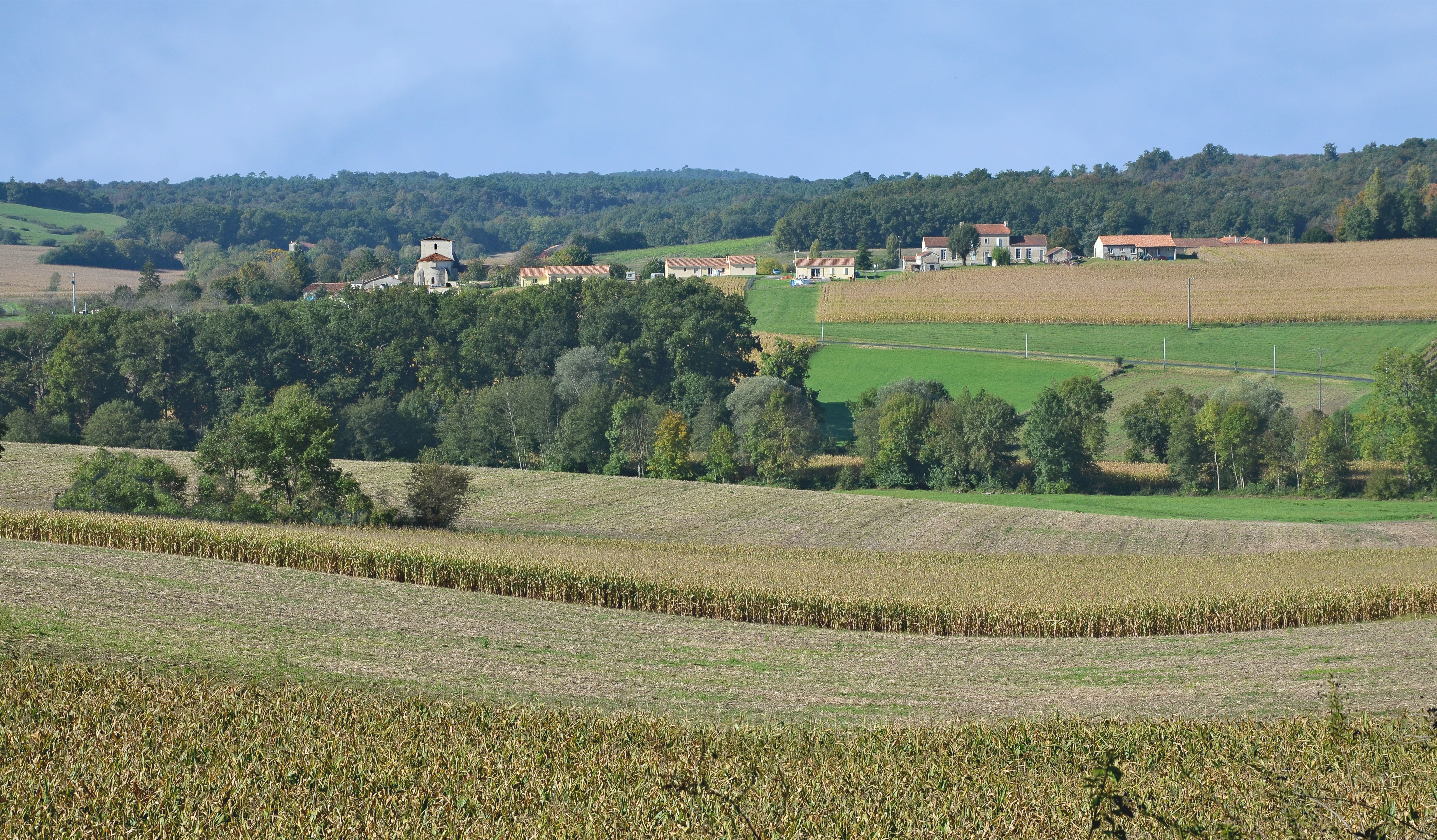 View of the village, as seen from East, on the road D 24. Courgeac, Charente, France.